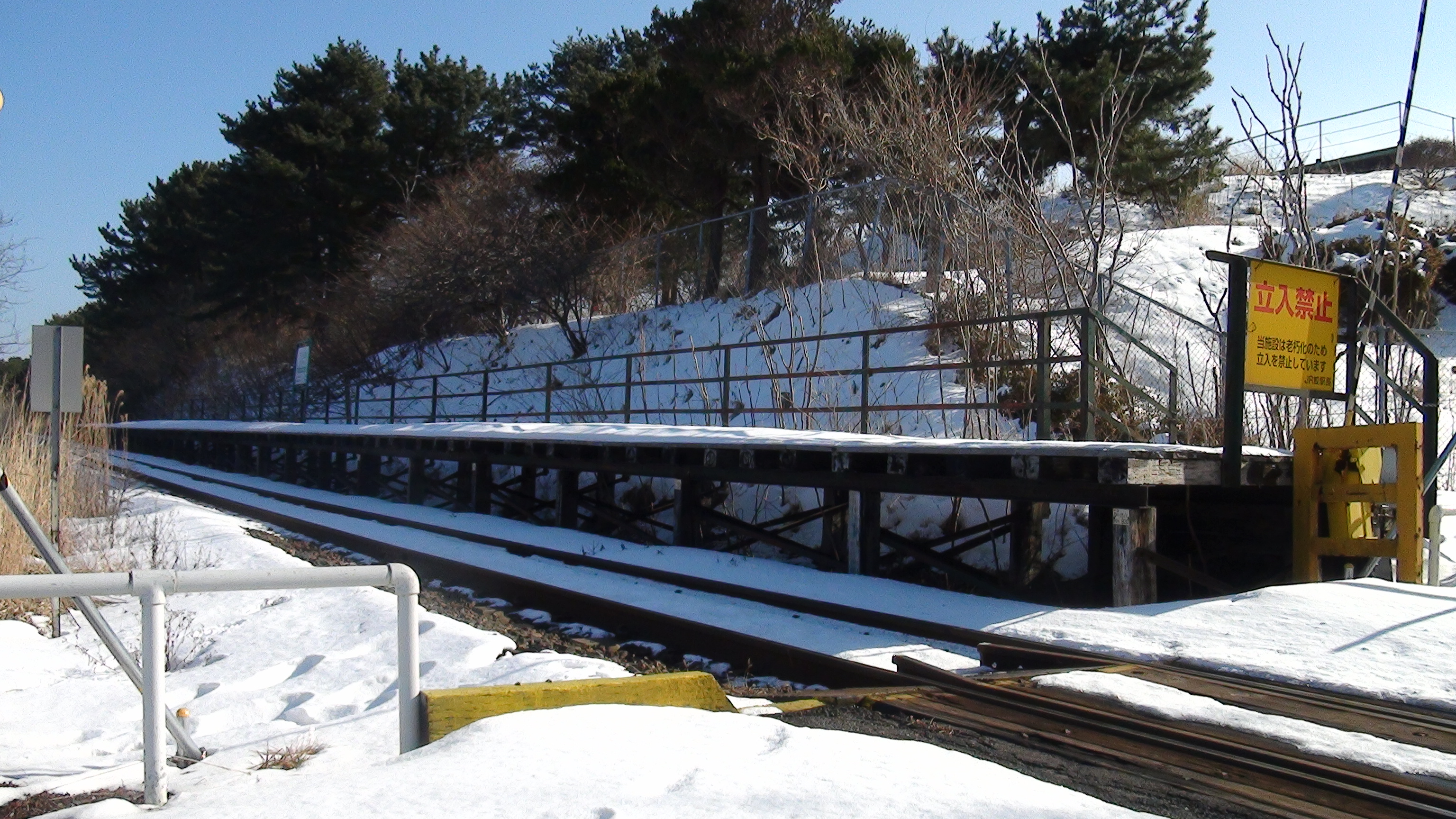 Pureipia-Shirahama Station